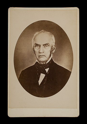 John Samuel Peters (1772-1858)